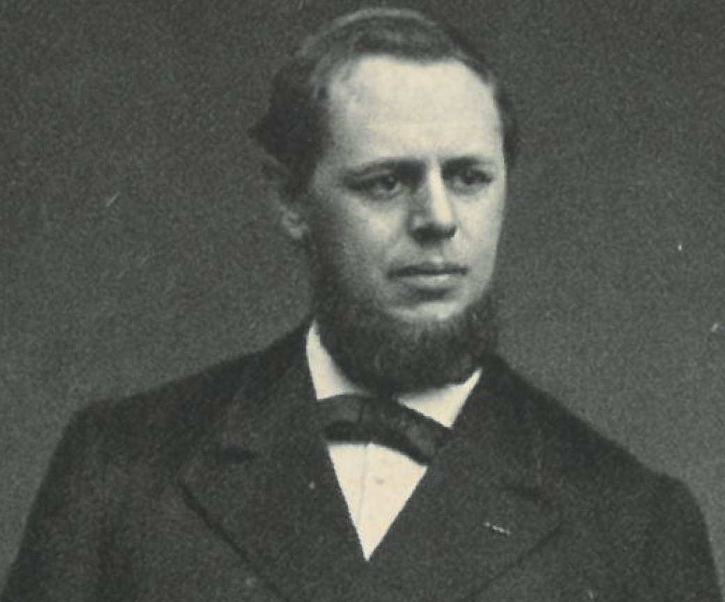 Gerard Jacob Theodoor Beelaerts van Blokland at the London Convention in 1883/1884.